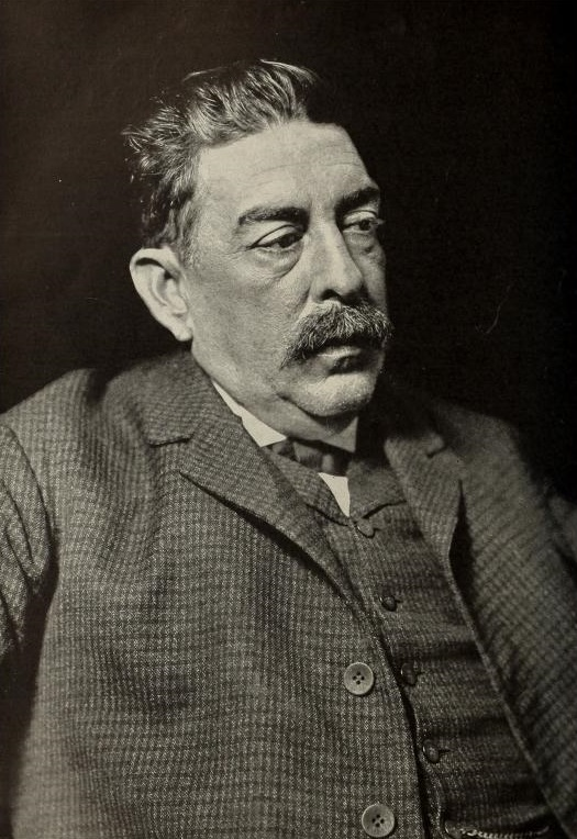 Portrait of José Miguel Gómez